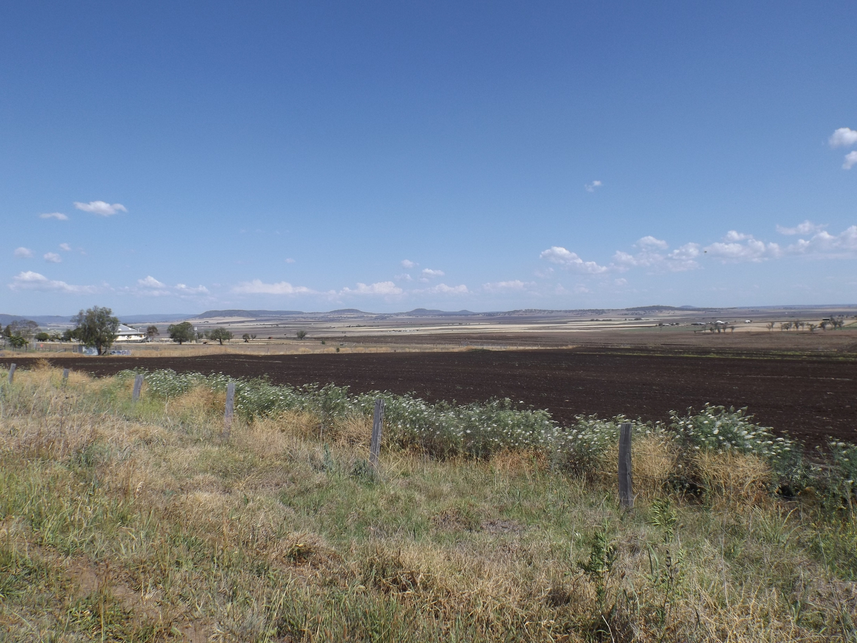 Photo of farmlands along Greenmount Hirstvale Road in Ascot, Toowoomba Region, Queensland, Australia.